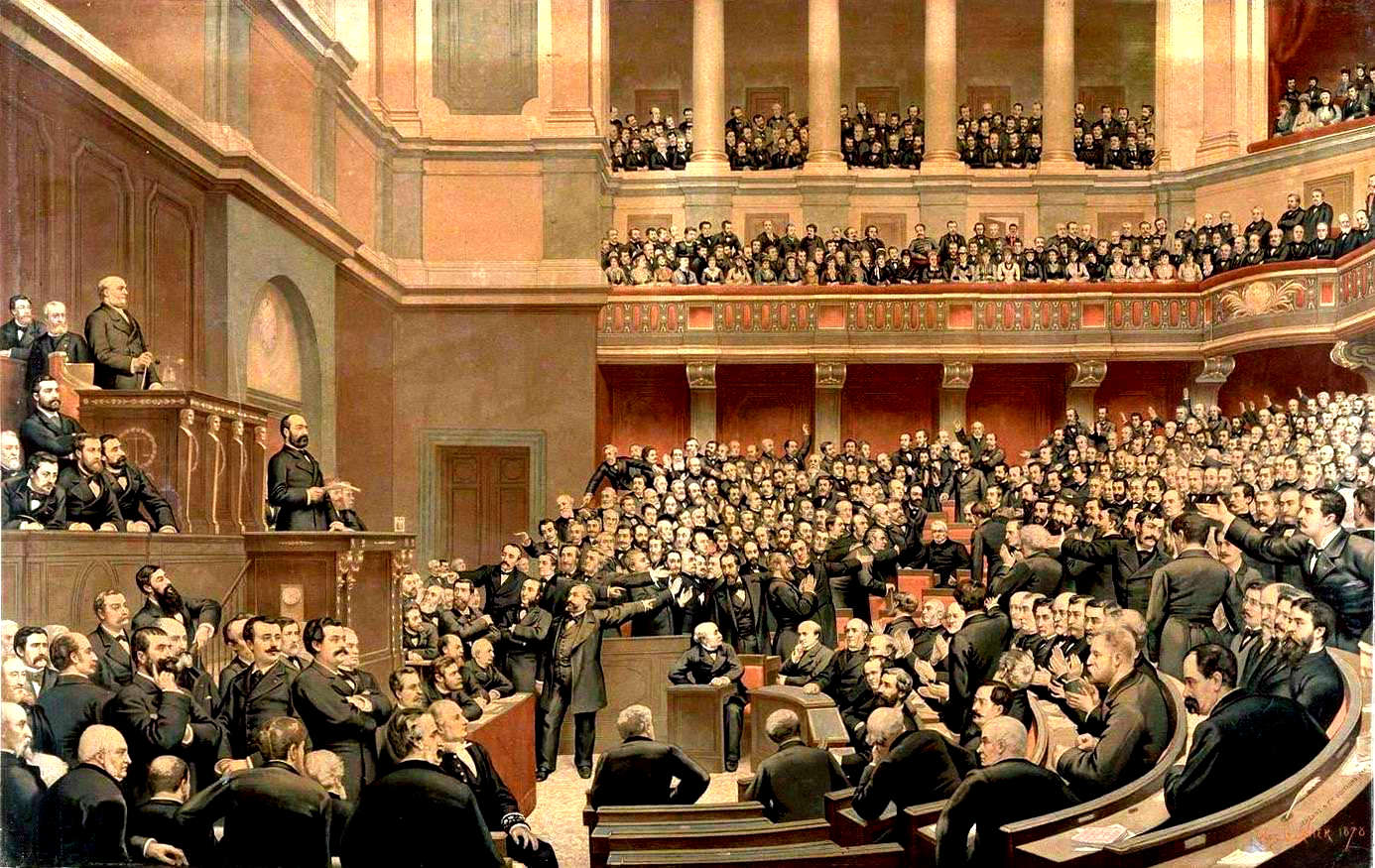 Adolphe Thiers is proclaimed “Liberator of the Territory” by the National Assembly in Versailles on 16 June 1877[1]